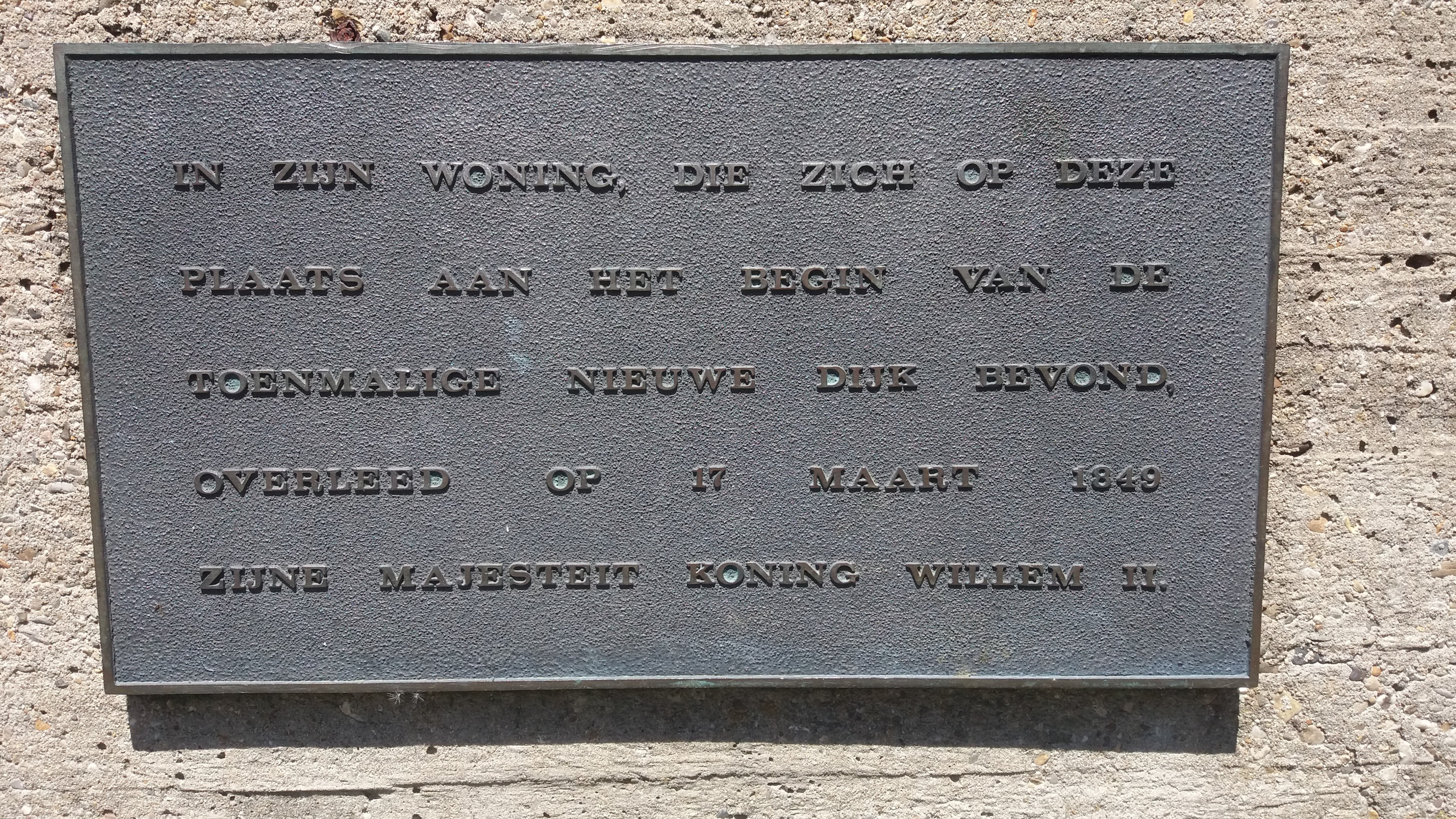 Placard at the fountain at the Willemsplein in Tilburg near the City Hall of Tilburg. The translation of the inscription reads: In his house, which was located at this place at the beginning of the then Nieuwe Dijk, his Majesty King Willem II died on March 17, 1849.